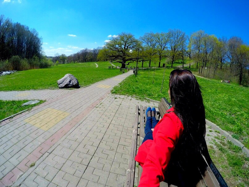 Oak Bohdan Khmelnytsky in the village of Oak (Russia, Belgorod) This image is related to the protected area of Russia number 3110052